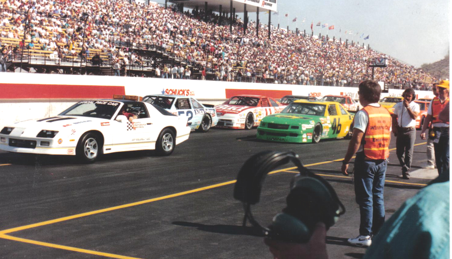 Filming some racing sequences for"Days of Thunder" in 1989 at Phoenix International Raceway